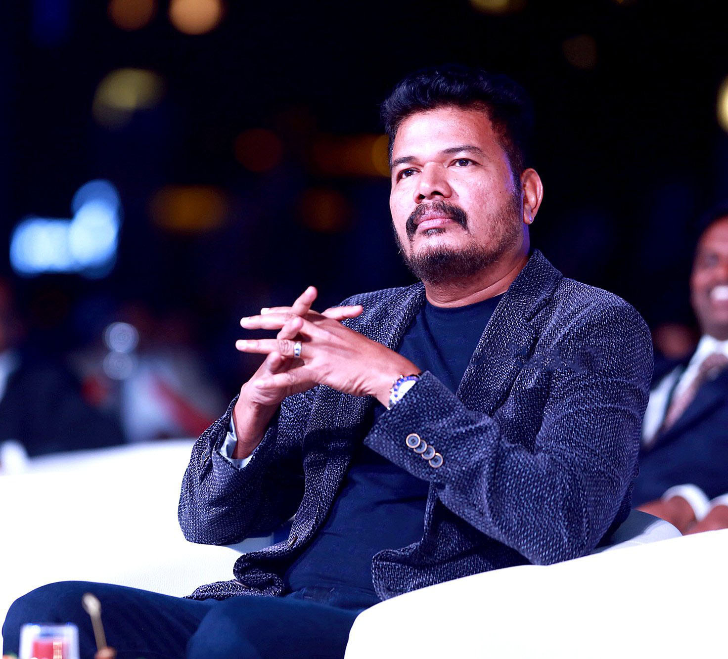 Shankar